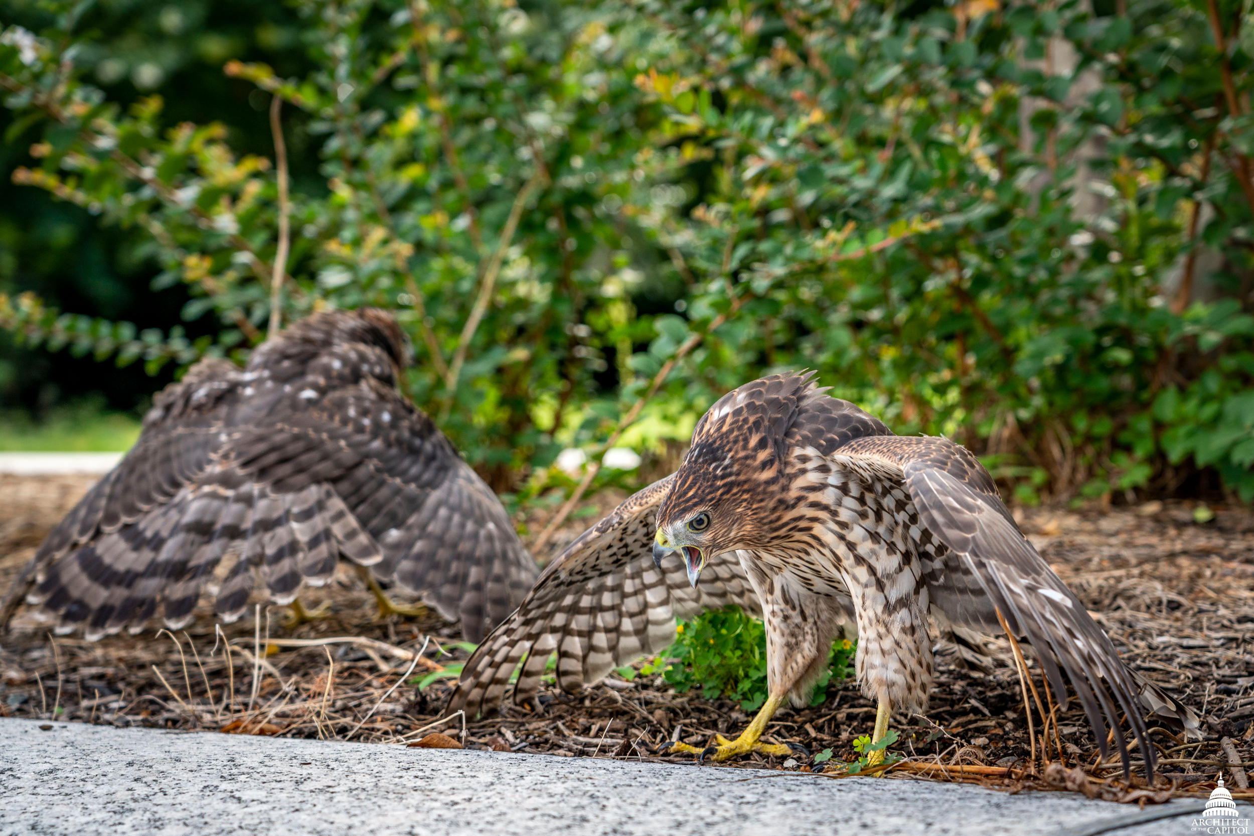 This official Architect of the Capitol photograph is being made available for educational, scholarly, news or personal purposes (not advertising or any other commercial use). When any of these images is used the photographic credit line should read “Architect of the Capitol.” These images may not be used in any way that would imply endorsement by the Architect of the Capitol or the United States Congress of a product, service or point of view. For more information visit . Reference: 483557